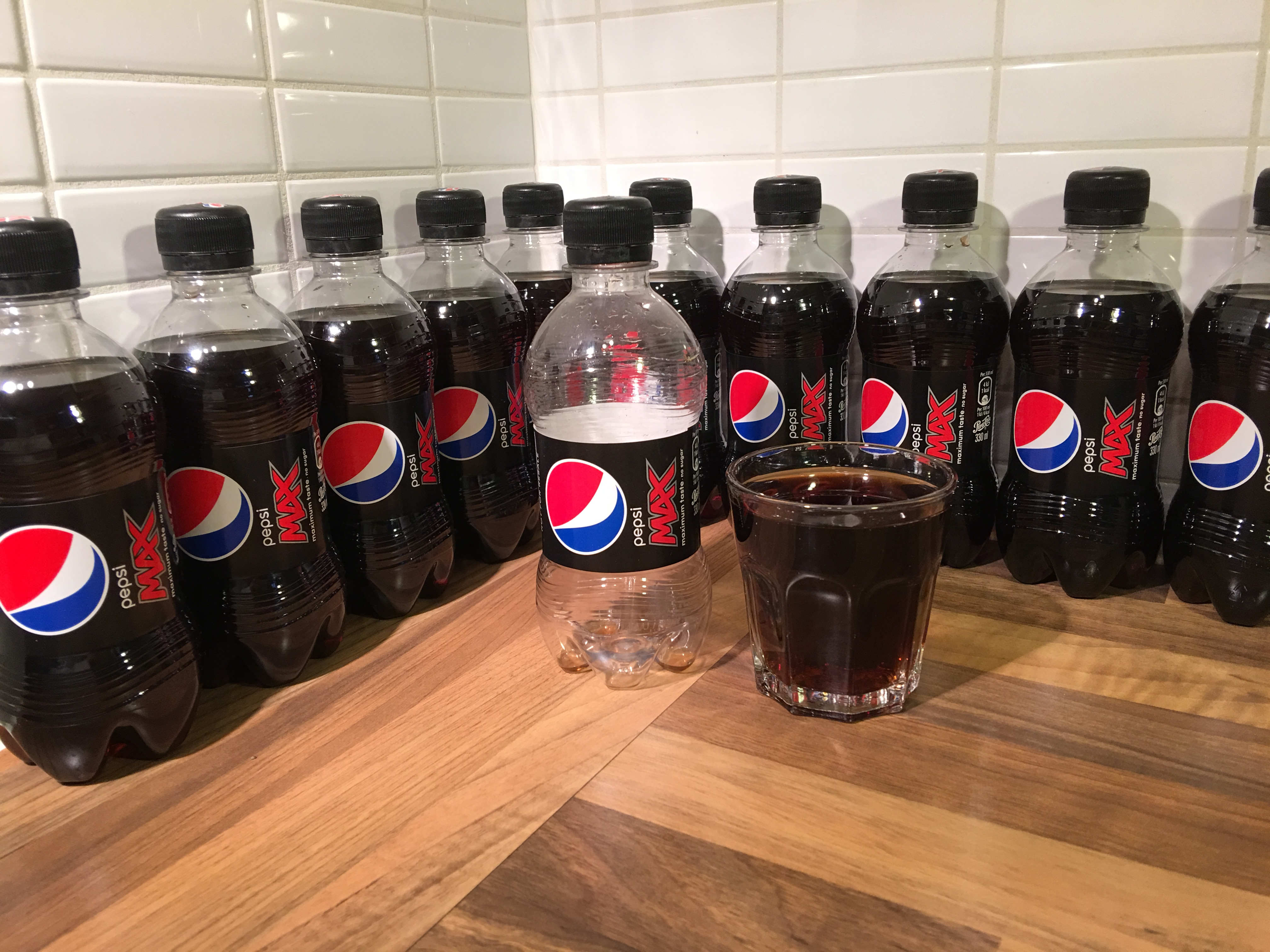 Small 0.33 liter Pepsi Max bottles